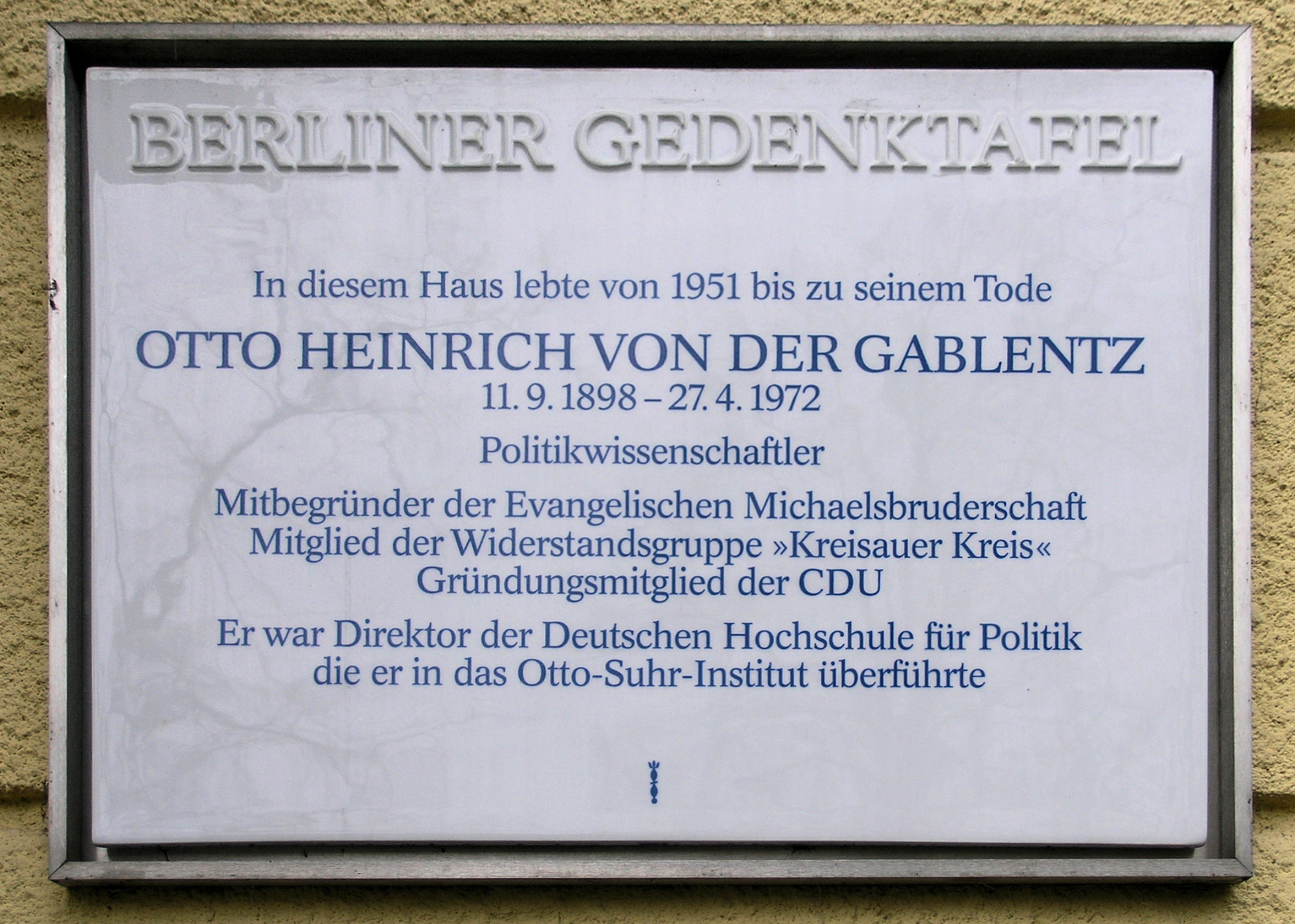 Berlin memorial plaque, Otto Heinrich von der Gablentz, Habelschwerdter Allee 24, Berlin-Dahlem, Germany